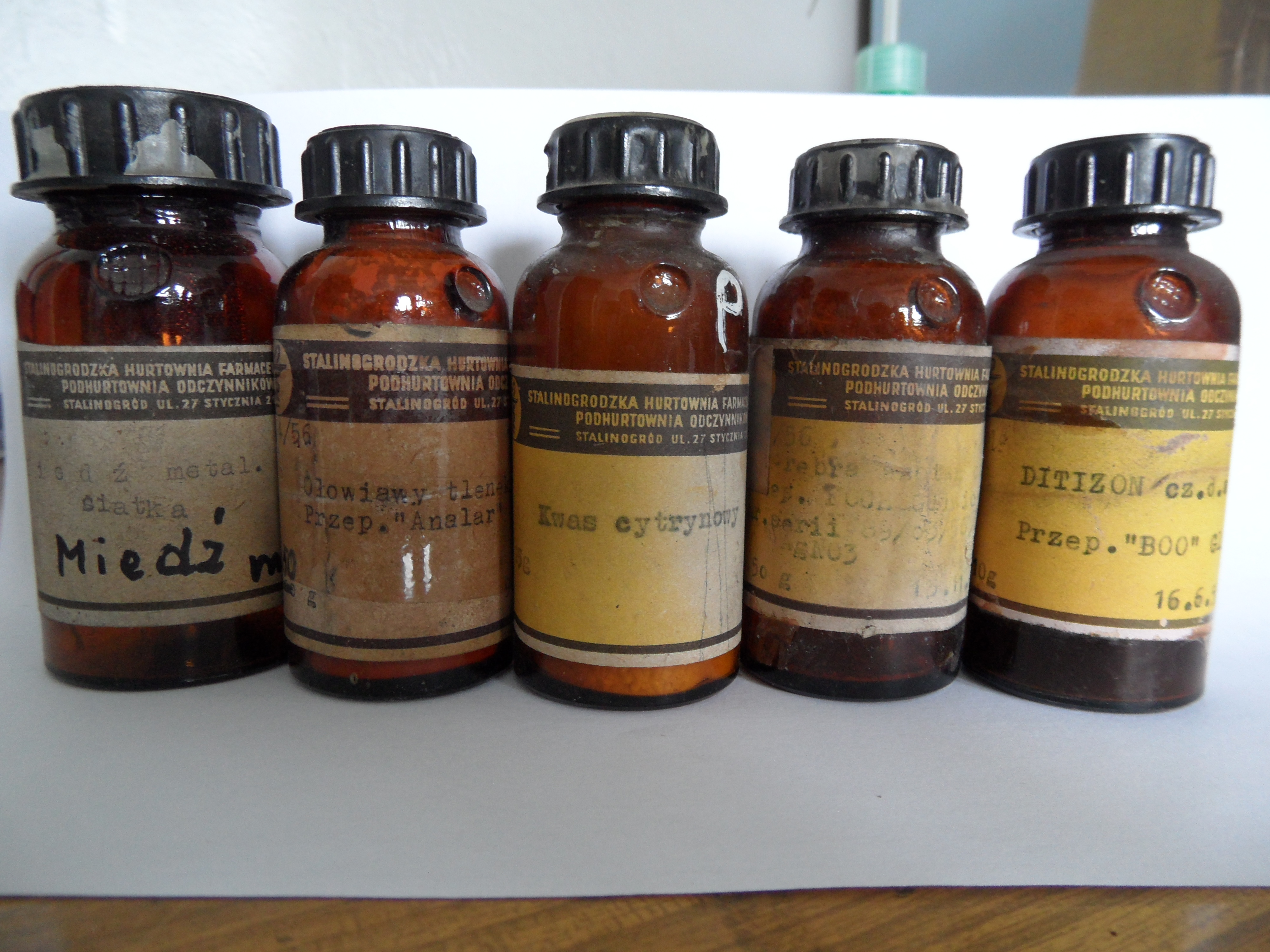 Old laboratory chemicals, Stalinogrod, 1950s, Poland